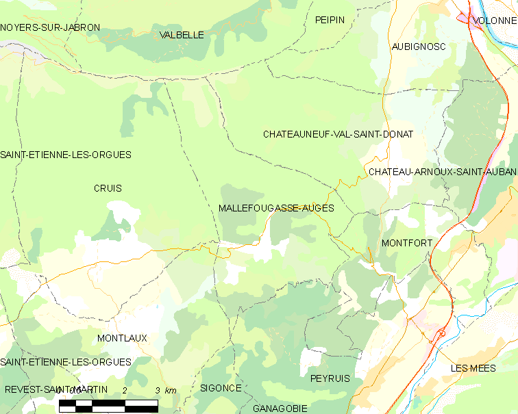 Map commune FR insee code 04109.png Légende